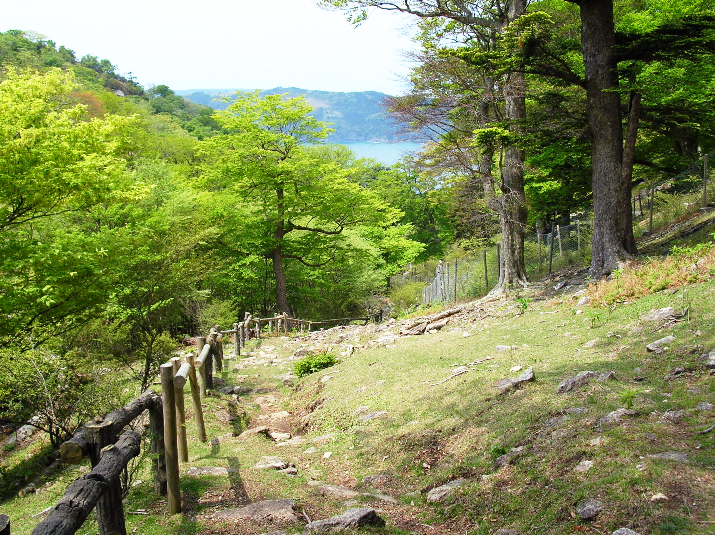 Kinka-san,Minami-sanriku,Miyagi-prefecture,Japan